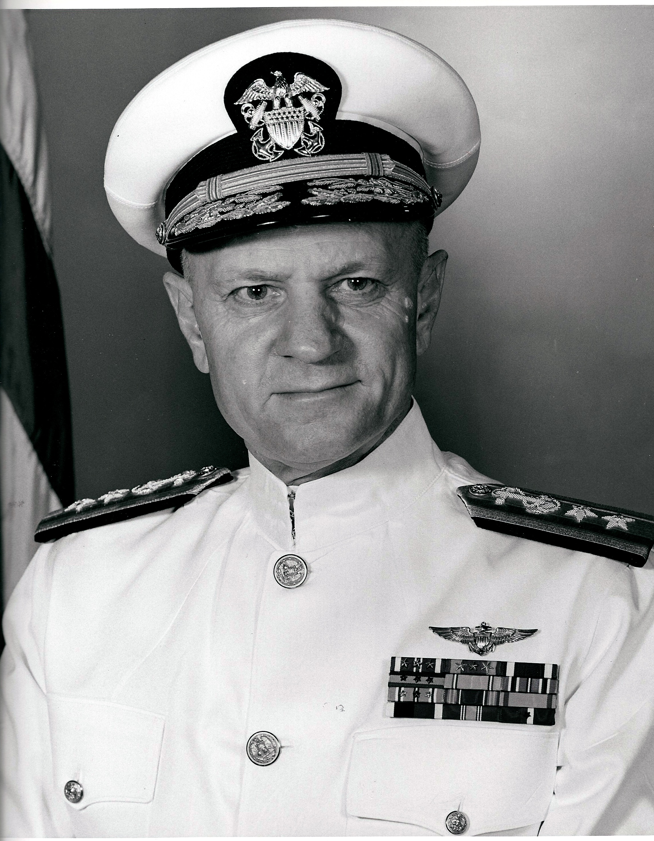 The back of the photo states: Black & White portrait of RADM Edward L. Feightner. Naval Photographic Center, Naval Station, Washington, D.C. Official Navy Photograph